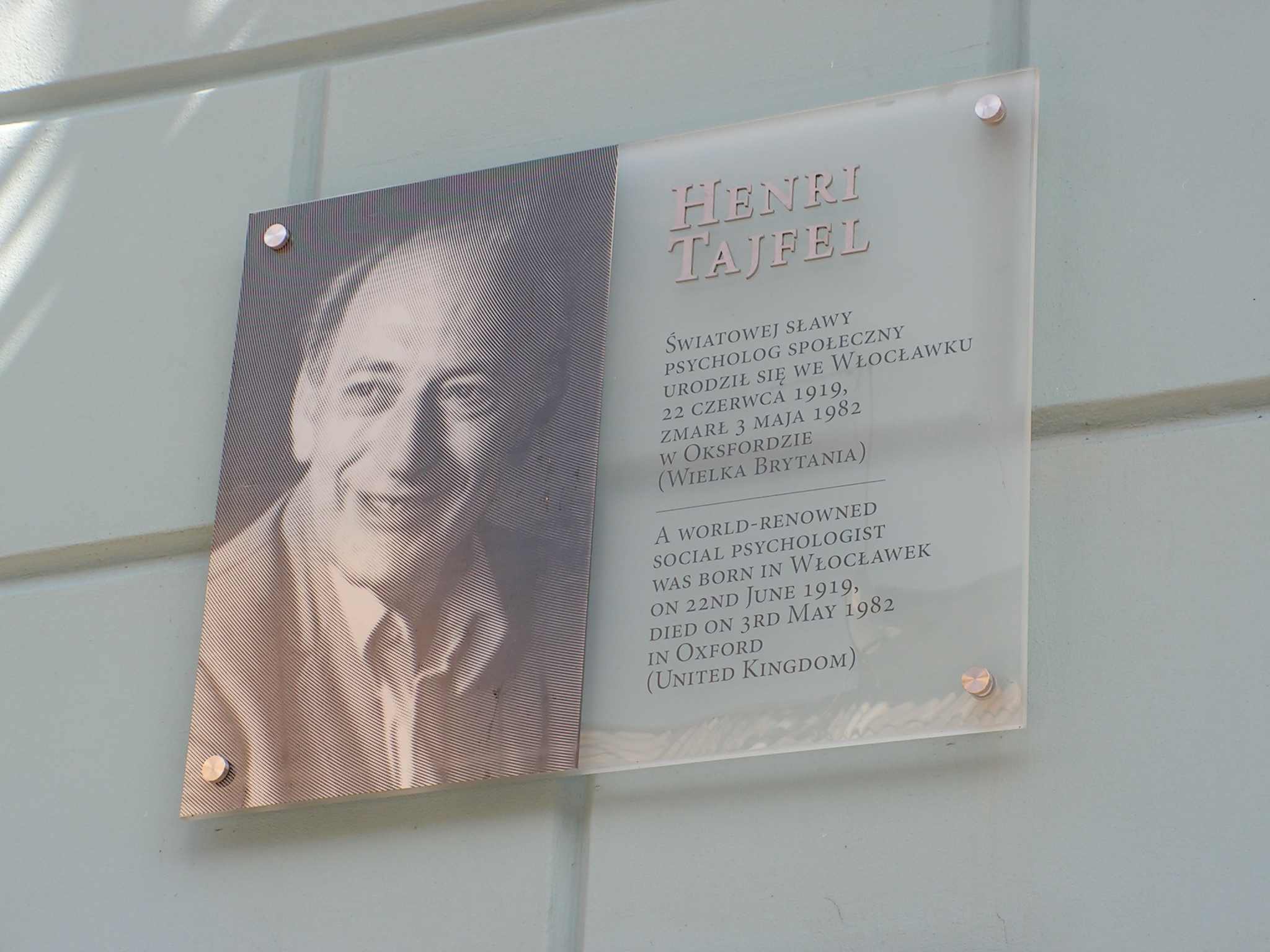 Plaque on the rector's office of Państwowa Wyższa Szkoła Zawodowa (State Higher Technical School) in Włocławek, dedicated to Henri Tajfel (1919-1982), world-known psychologist born in Włocławek. It have been uncovered at 24th of June 2019 year.